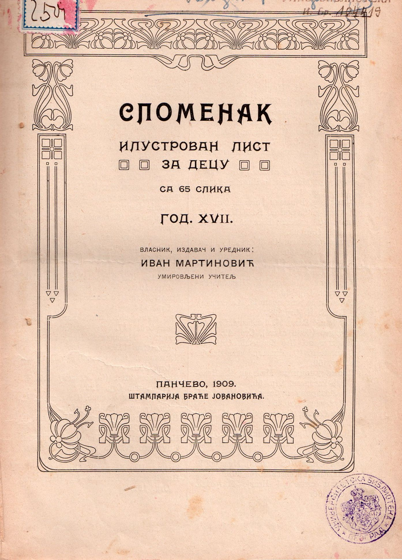 Spomenak, children magazine, cover from 1909